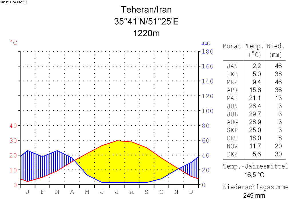 climate chart in the format by Walter and Lieth, metric, °Celsisus and millimeters, made with Geoklima 2.1